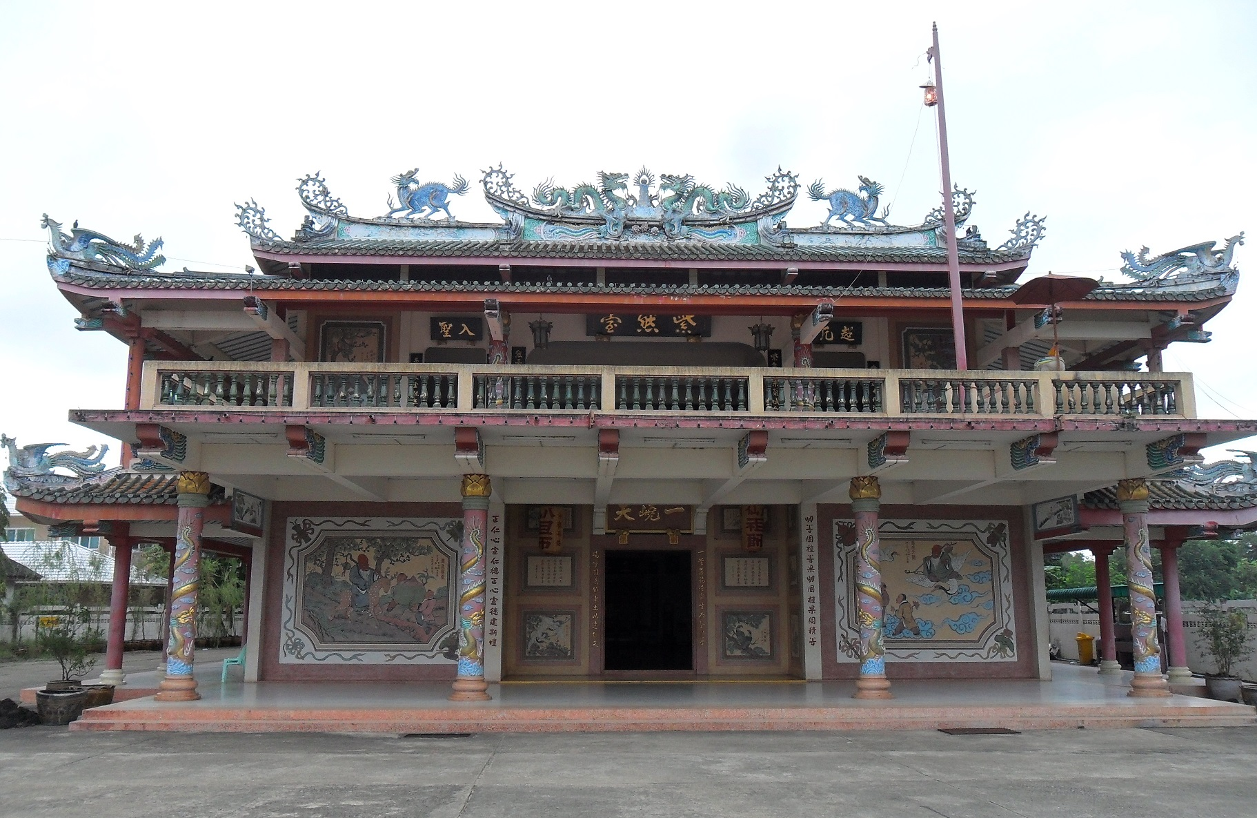 Sawang Thiang Thammasathan Foundation, Rat Uthit Road, Aranyaprathet, Thailand